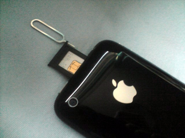 An iPhone 3G with the sim card slot extended and the sim card ejector still placed in the ejector.